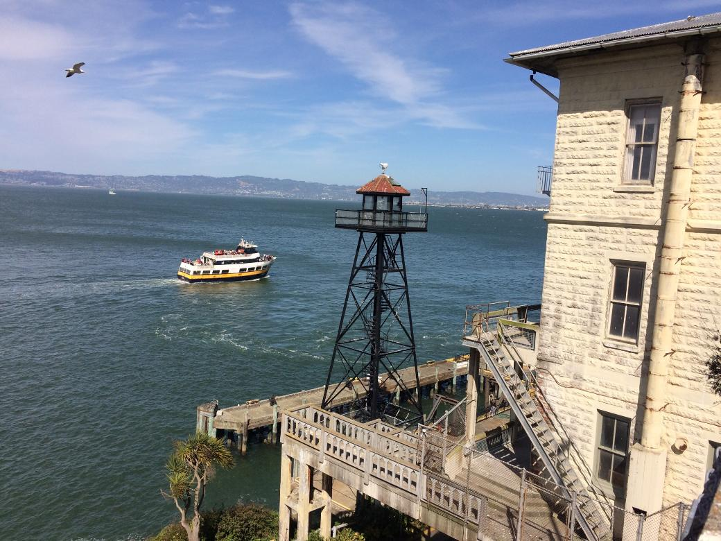 A watch tower at Alcatraz Island, San Francisco, California.